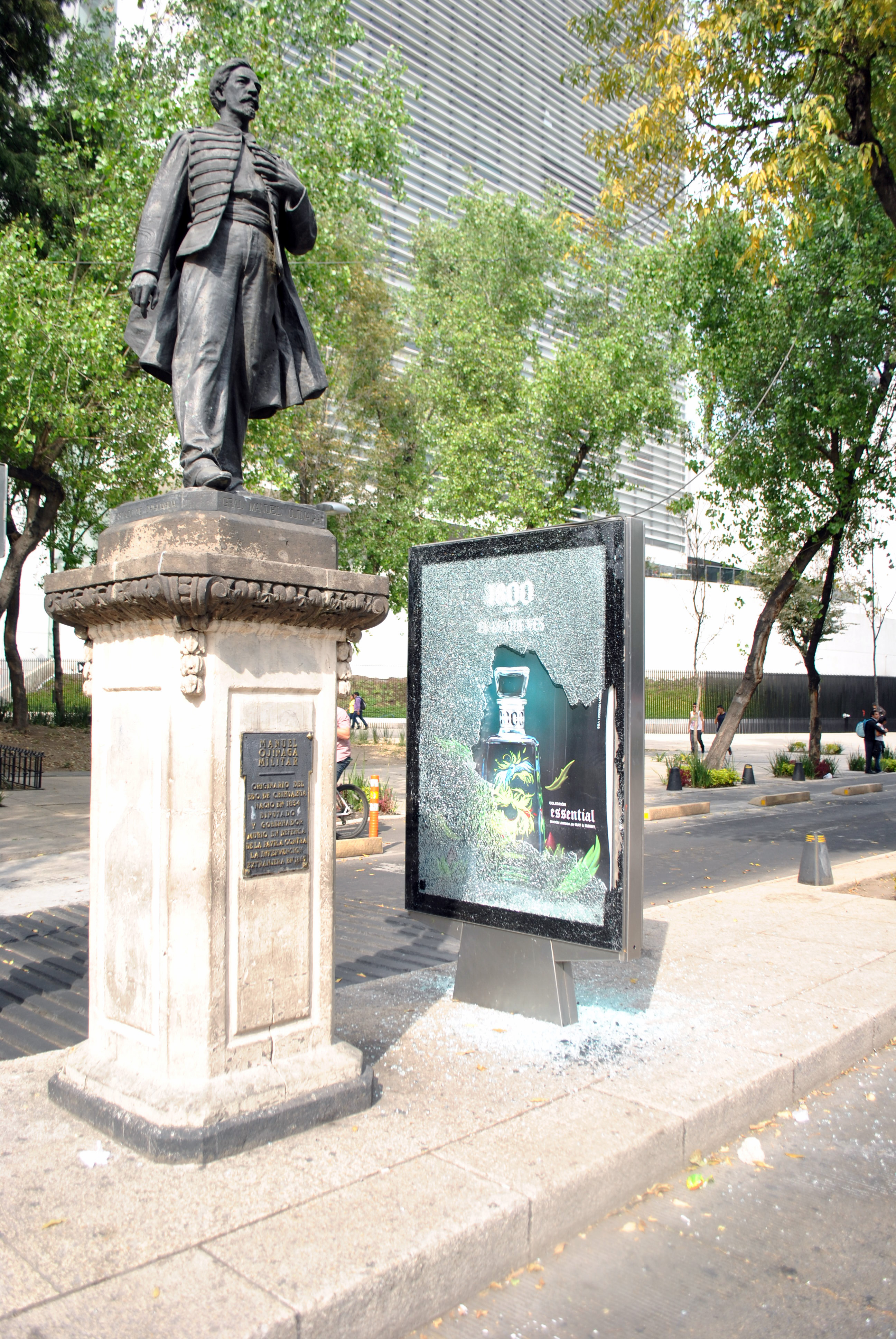 Damage to urban furniture after demonstration by the swearing of Enrique Peña Nieto, Mexico City.